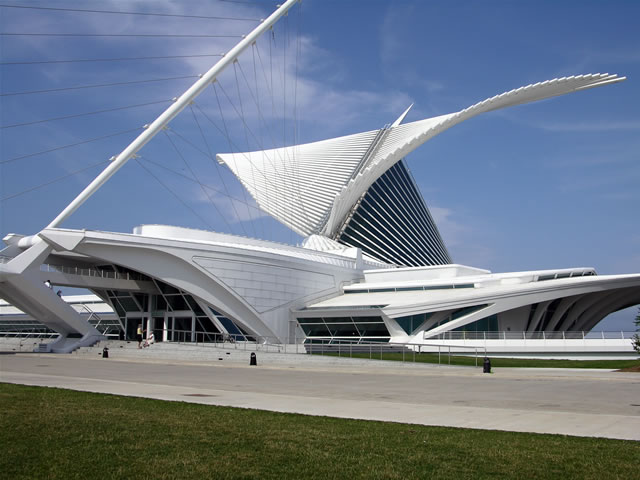 Picture of the Milwaukee Art Museum in the daytime